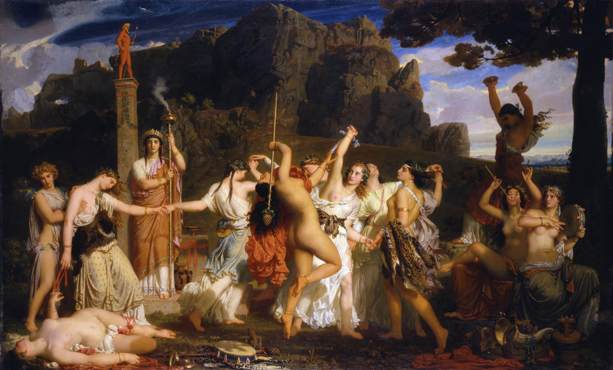 The Dance of the Bacchantes, the last painting by Gleyre exhibited publicly in Paris (at the Salon of 1849), came as a surprise to enthusiasts of bacchanals, which had been a traditional subject since the days of Titian and Poussin. Bacchus, Silenus and the satyrs are all absent, and the painting is therefore neither mythological nor fabulous, but rather historical and religious. Gleyre paints a mysterious, wild and exclusively female ritual, captured in very precise draughtsmanship and a smooth technique producing what one critic calls the strange effect of a “choreography, which is both noble and unbridled, frenzied and rhythmic”.Following in the footsteps of A l'instar de Pentheus, The Dance reveals a new, popularised reading of the roots of ancient Greek civilisation and its forms of worship in the 1830s. Contrary to the solar, masculine and Apollonian vision which had been extolled by Winckelmann since the mid-18th century, Gleyre depicts the primitive, eastern and Dionysian Greece, posited in the works of the philologist and historian Friedrich Creuzer.Subjects drawn from Antiquity provided the painter with the opportunity for a personal and unusual meditation on the origins of the arts, omitting any reference to either Apollo or Orpheus. In The Dance invented by the Bacchantes, the music played to animals in Minerva, the art of spinning taught to an absurd Hercules by the beautiful Omphale, and the love poetry composed by Sappho - the secret of the arts seems to be the preserve of women, acquired through a mysterious and intuitive affinity with the divine powers of creation.